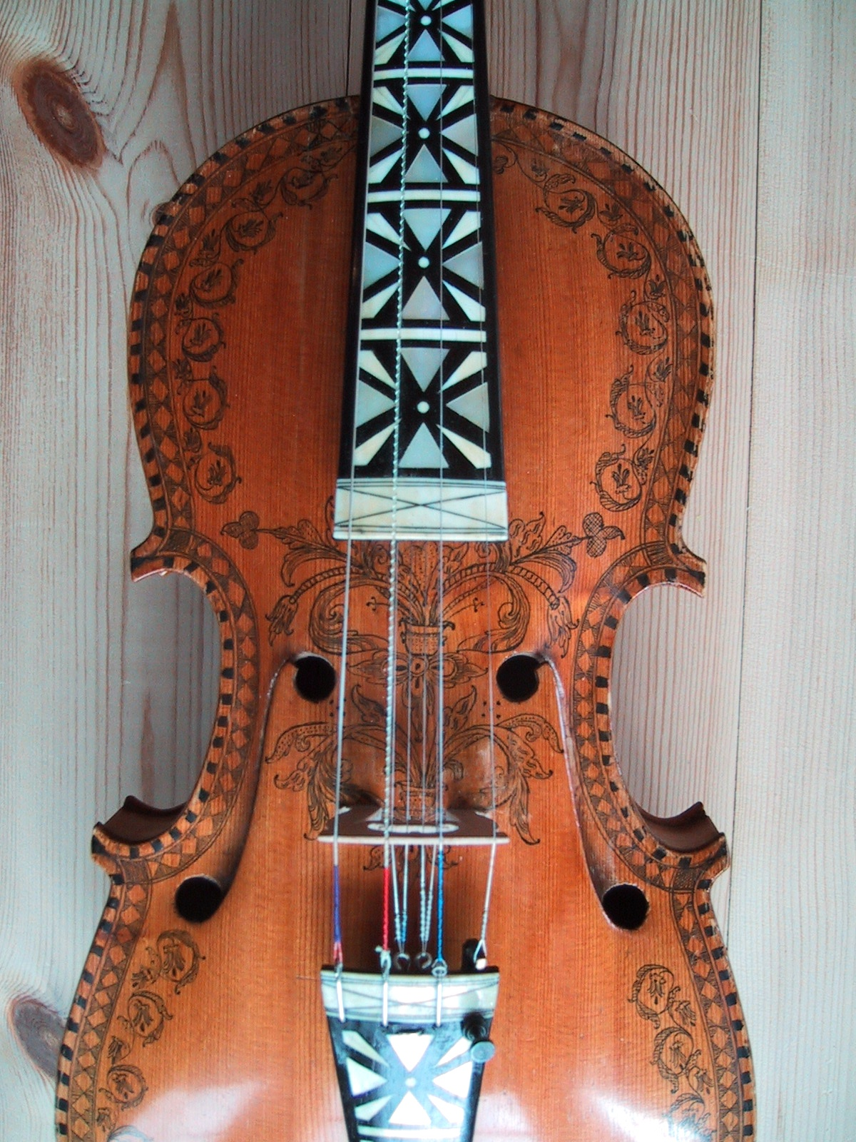 A Hardanger fiddle made by Knut Gunnarsson Helland. Owned by Monica Skaro, who inherited it from her grandfather Knut Skaro from Geilo, Norway. Norsk (bokmål): Hardingfele laget av Knut Gunnarsson Helland. Eier er Monica Skaro, som arvet den etter sin bestefar Knut Skaro fra Geilo.